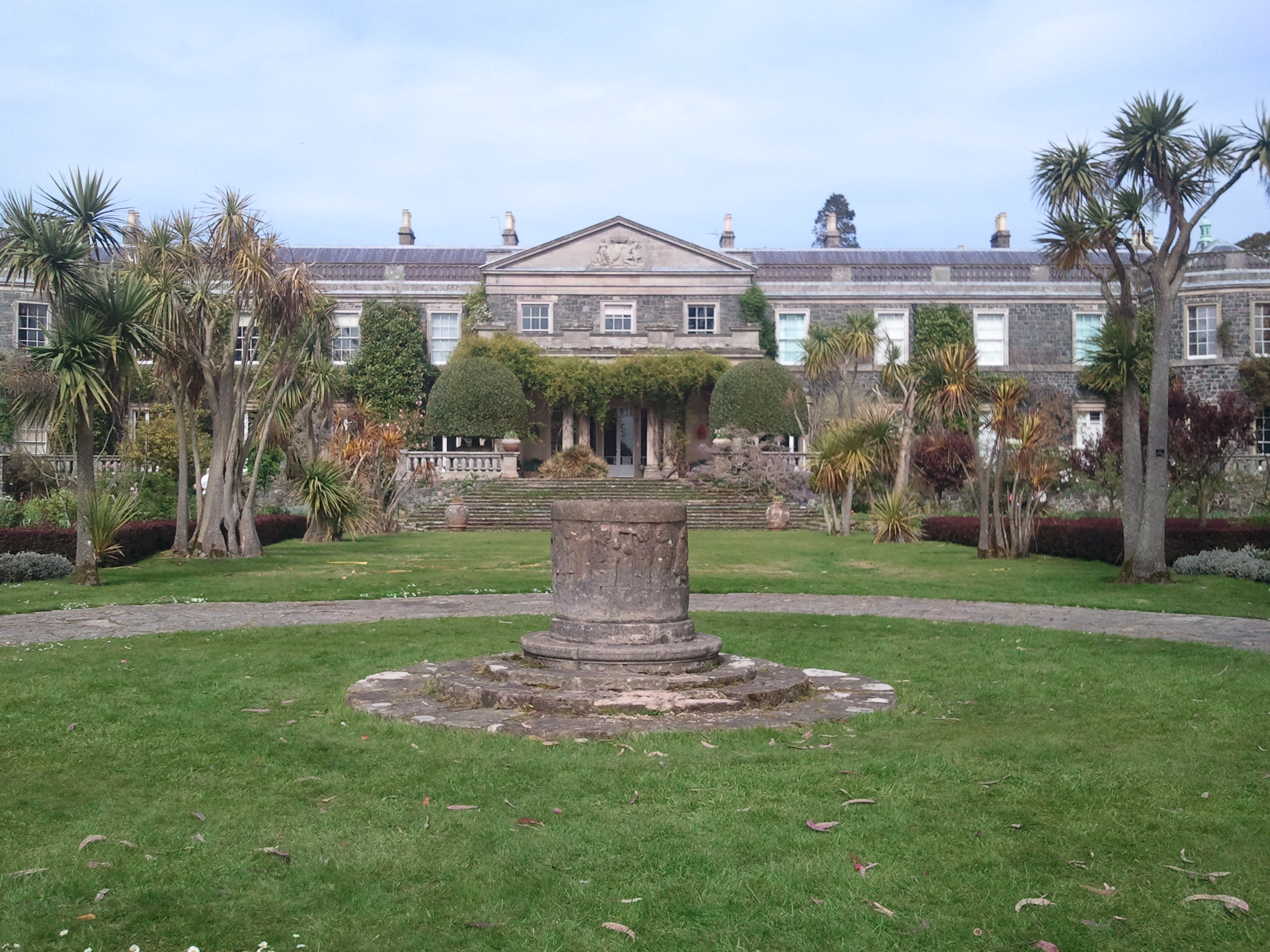 Taken in front of the Spanish Garden